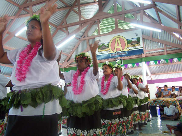 Bonriki International Airport welcome, Kiribati